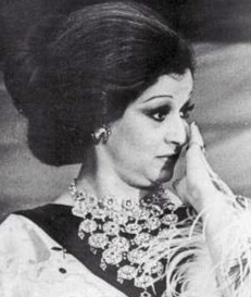 Warda El Jazaïria